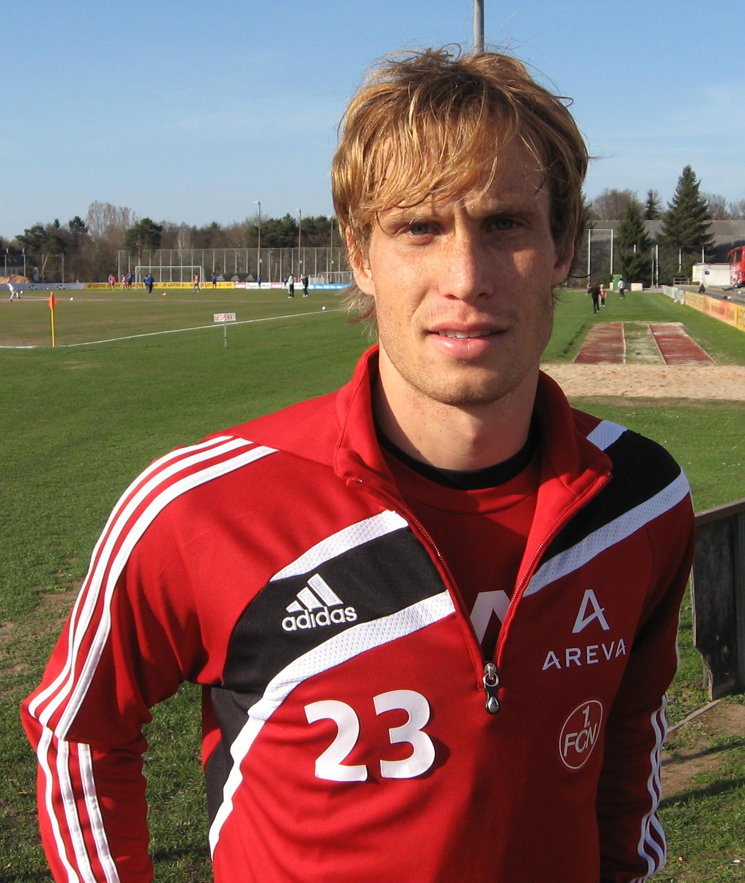 Andreas Ottl, player of 1. FC Nürnberg.